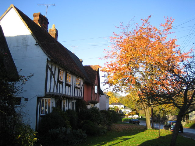 Clavering Old half-timbered jettied houses in Middle Street.